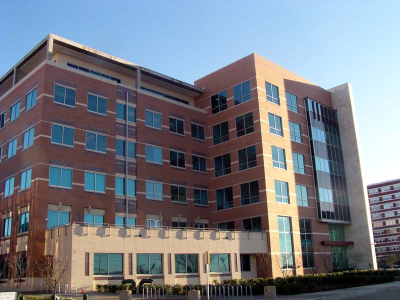 The Dallas Police Department Headquarters in the Cedars neighborhood of south Dallas, Texas (USA).